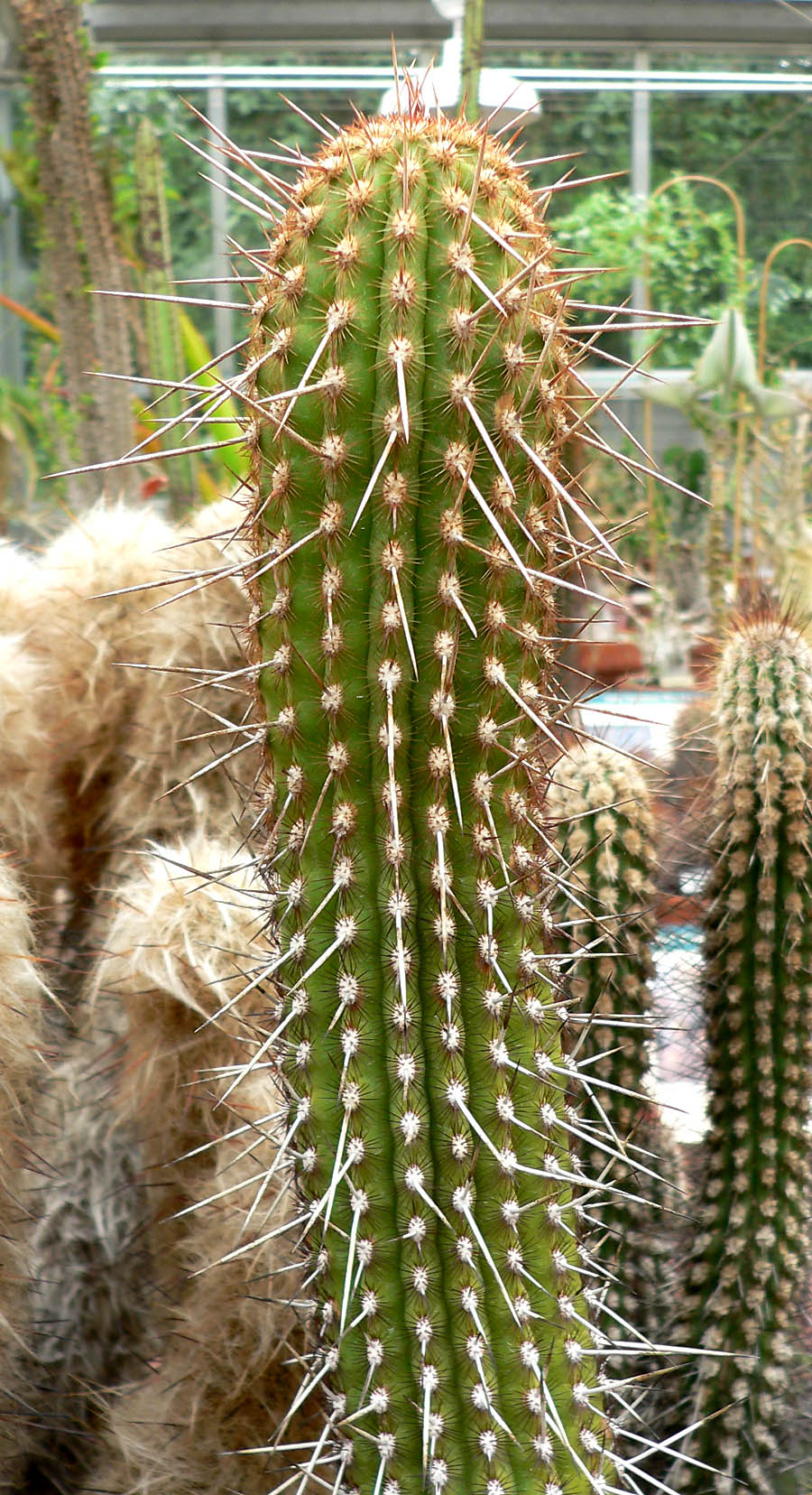 Photo of Espostoa mirabilis at the University of California Botanical Garden